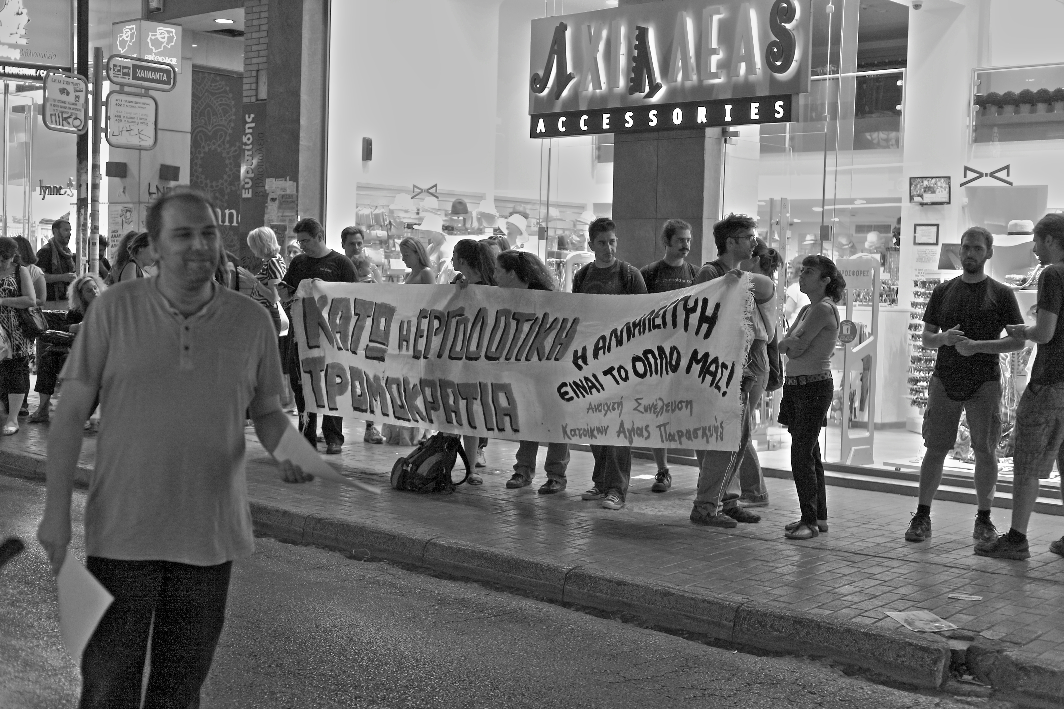 Working-class political protest in the northern suburb of Halandri in Athens, Greece organized by a political activists' group calling itself "Open Assembly of Agia Paraskevi" (Ag. Paraskevi is a nearby northern suburb of Athens), calling for the boycott of a local bookshop, named Evripidis, allegedly because it fired a female employee identified as "R." in the activists' flyers, presumably because of her anti-capitalist political activism (according to the activists). The protestors had a banner which read "Down with the bosses' terrorism, solidarity is our weapon! Open Assembly of the Residents of Agia Paraskevi." 17 September 2013, in Halandri, Athens, Greece. Canon EF 50mm f/1.8 II lens on a full-frame Canon EOS 5D camera. Exposure: 1/125 f/3.2 ISO-1600 RAW post-processed, HDR (High Dynamic Range processing), brightened and contrast-enhanced black-and-white. The HDR processing was done with one original photo which was edited to three brightness levels and then combined into one new photo. Original and color versions are available too.